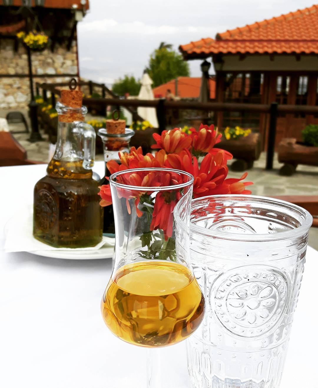 Rakija. The most familiar macedonian alcoholic drink.